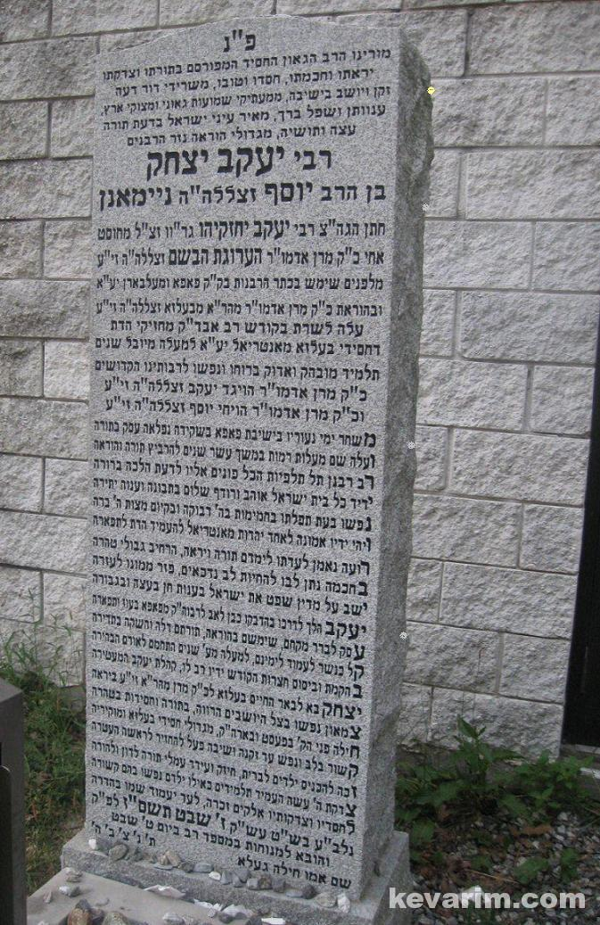 Tombstone of Rabbi Yaakov Yitcak Neimann Montreal